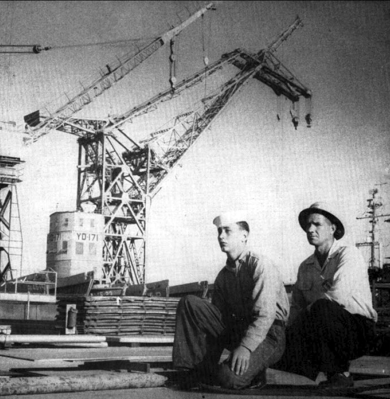 Two U.S. Navy yard workers at the Long Beach Naval Shipyard, California (USA) in front of the former German Navy crane called "Herman the German" (YD-171). The floating crane had 5,000 tons displacement, was 62.4 m long and had a beam of 33,0 m. Its mximum height was 115 m, the draft was 3 m, its lifting capacity was 350 tons. The crane had a forward speed of 5.8 kn and a backward speed of 4.6 kn. The crane was transported from Germany to the U.S. in 1946 and was assigned the hull number YD-171. It was finally struck from the Naval Register, 19 September 1994. In the U.S. Navy it was coloquially known as "Herman the German". It was sold to Panama in 1994 and entered service in 1999. The crane, now named "Titan" is used for the heavy lifting required to maintain the doors of the locks of the Panama Canal.